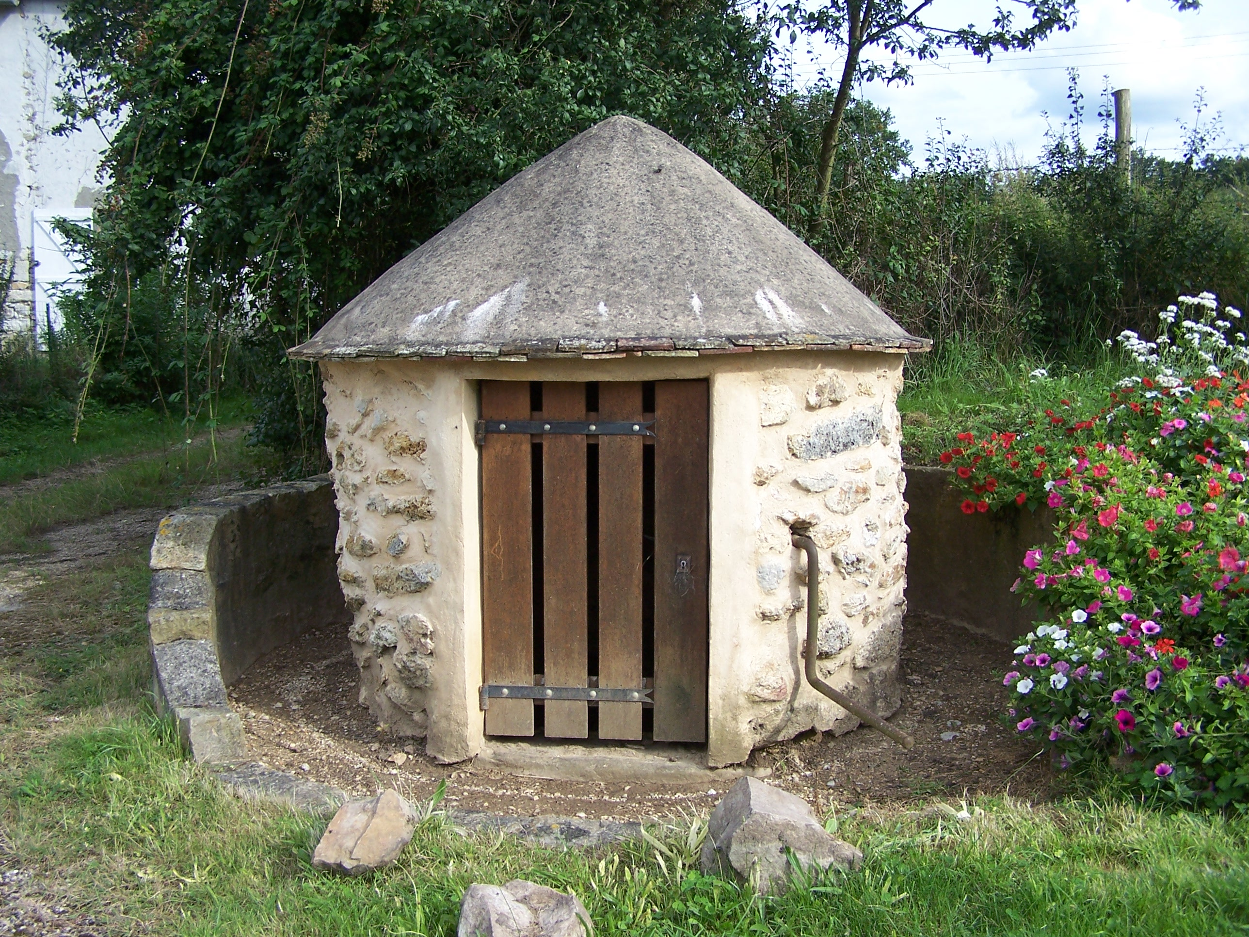 Well in Civry-la-Forêt (Yvelines, France)